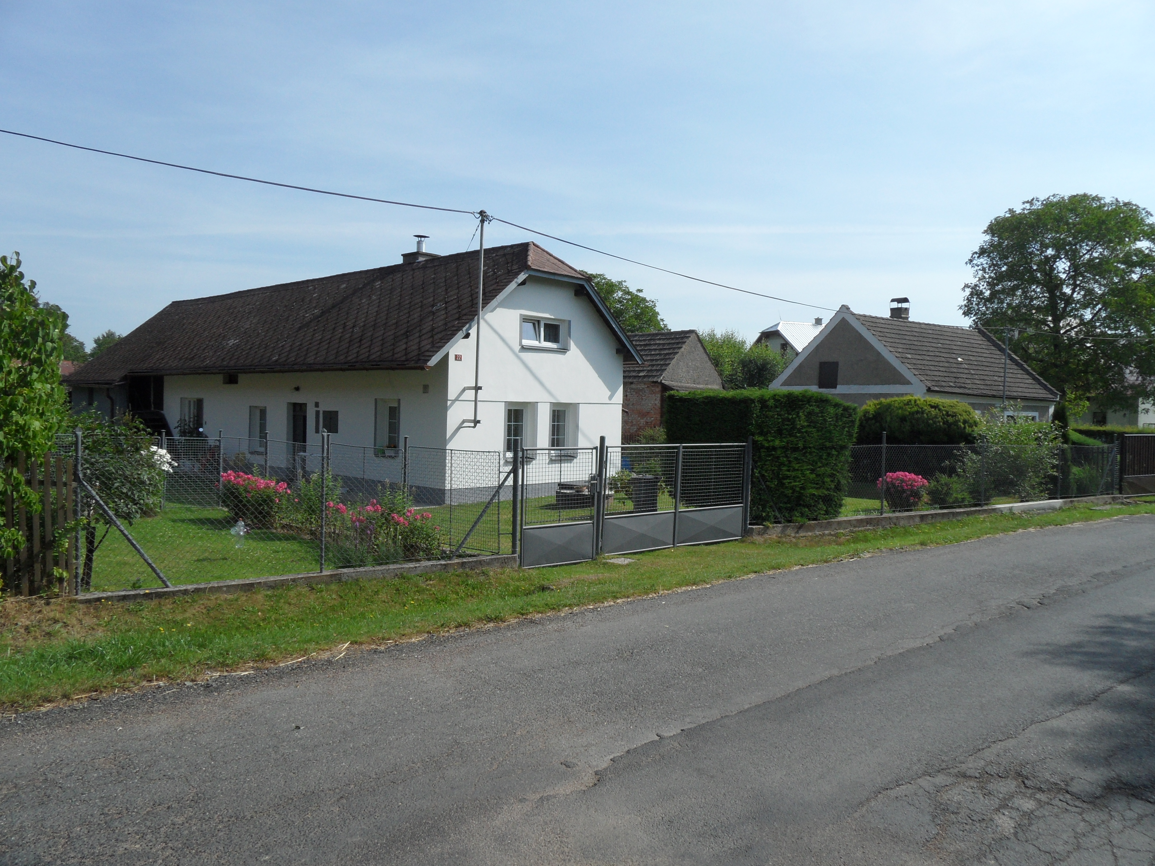 Hetlín C. Village Houses on the South Side (along Road tu Kateřinky), Kutná Hora District, the Czech Republic.